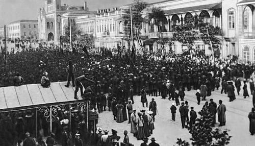 A manifestation in Tiflis during the First Russian Revolution on 22 October 1905